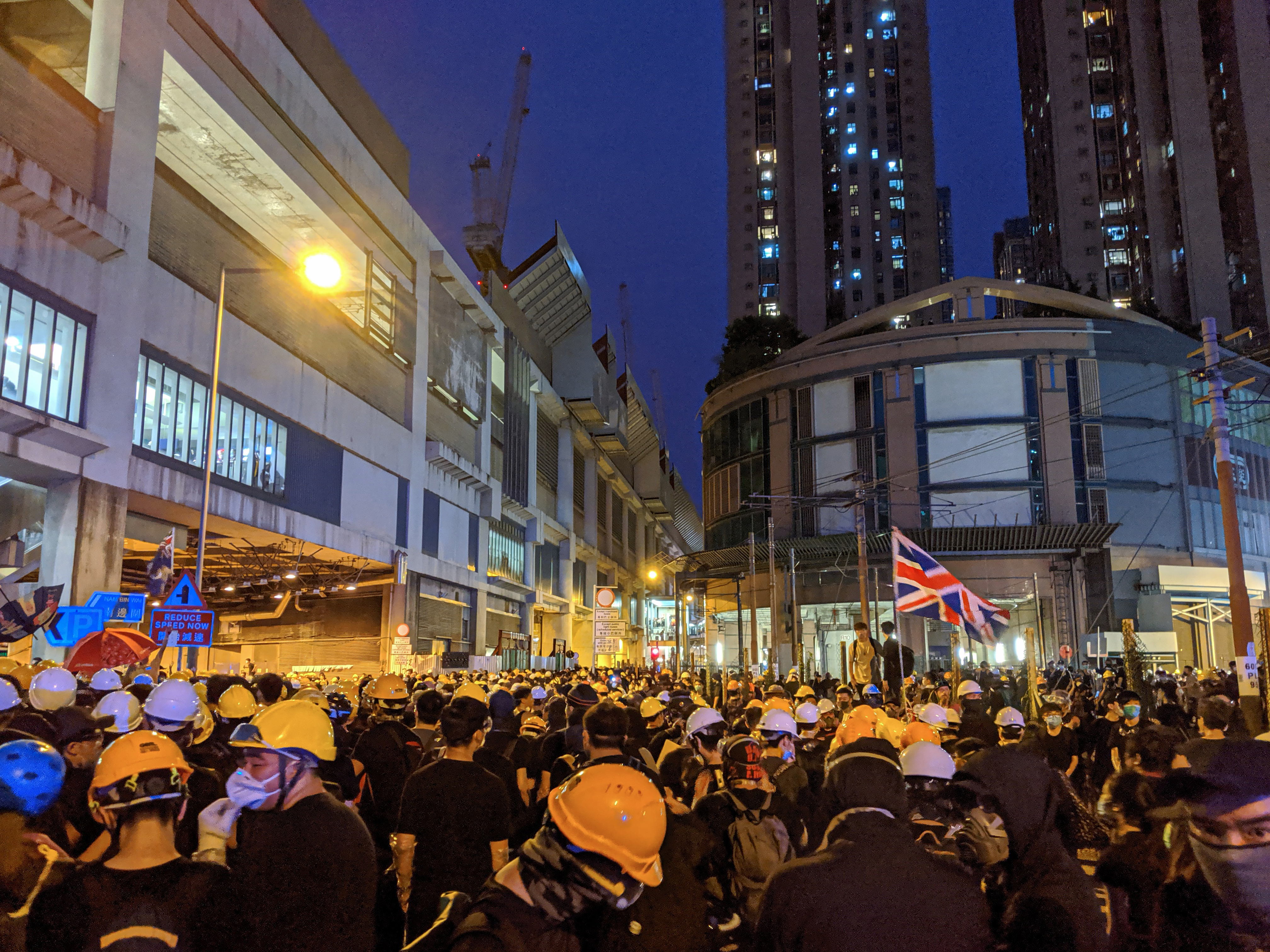 中文（中国大陆）: 2019 Hong Kong anti-extradition law protest on 27 July 2019, captured by Studio Incendo from Flickr.